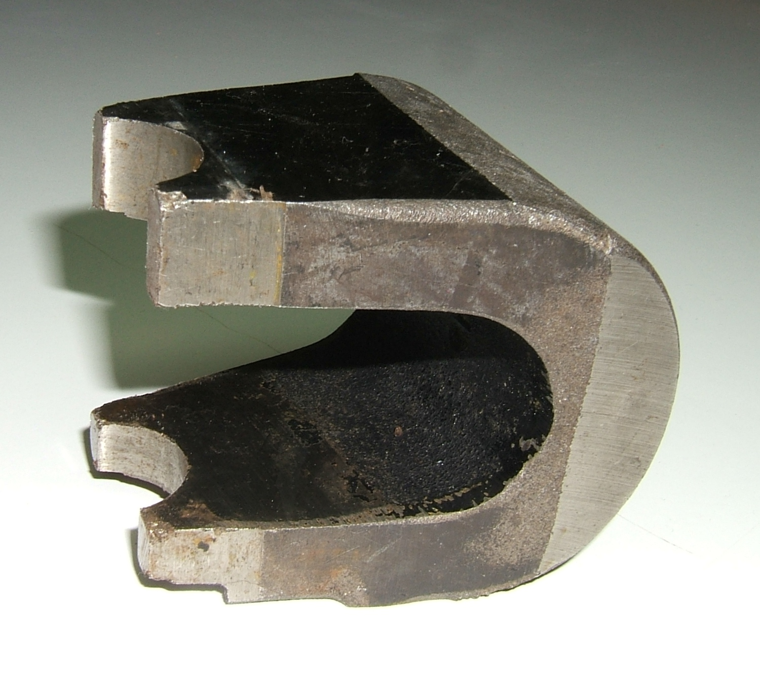 Alnico magnet from a magnetron tube used in an early microwave oven. About 3 inches (8 cm) long. Two such magnets are used, placed pole to pole (N to N, S to S), with their poles embracing the tube.